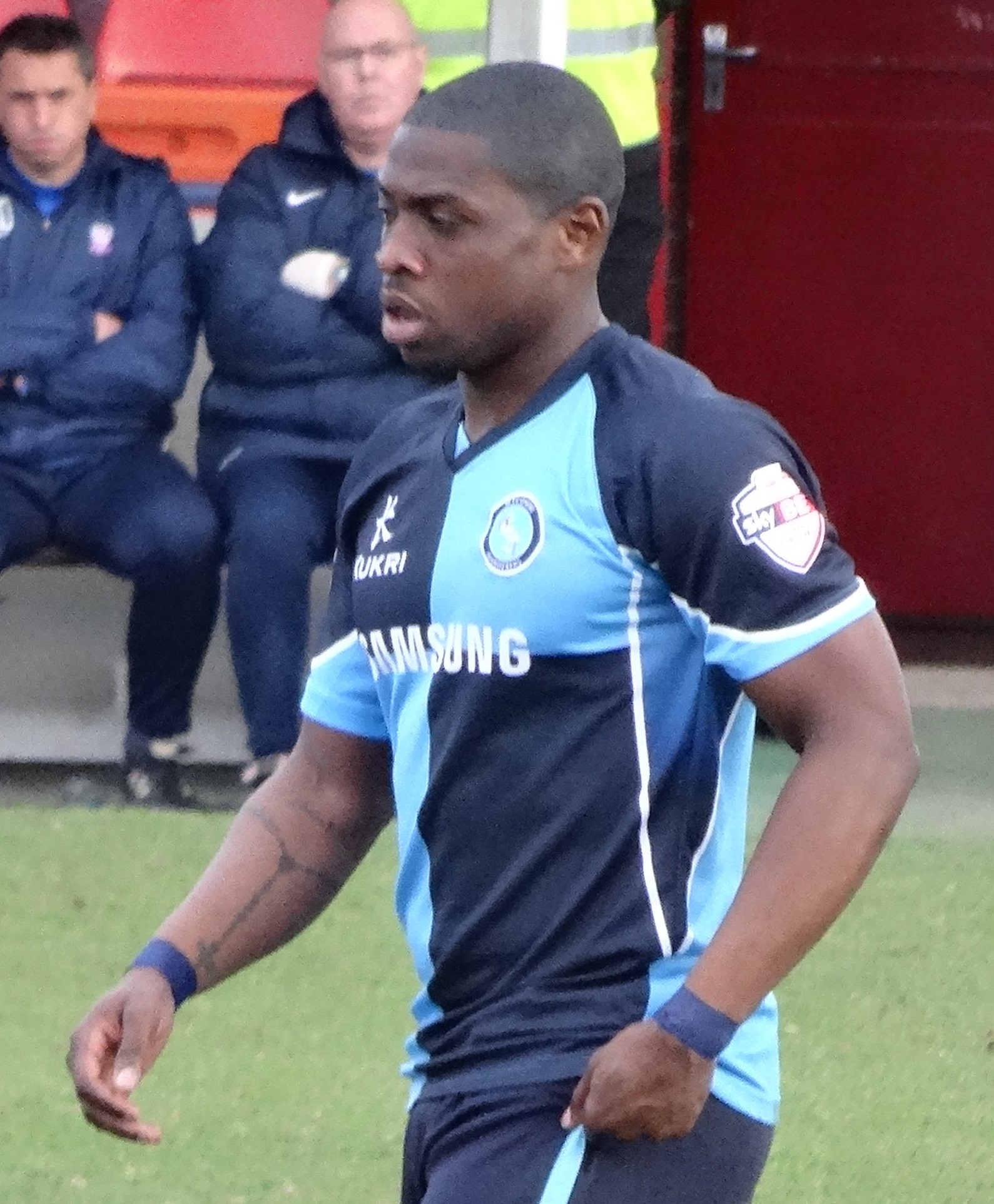 Jo Kuffour.